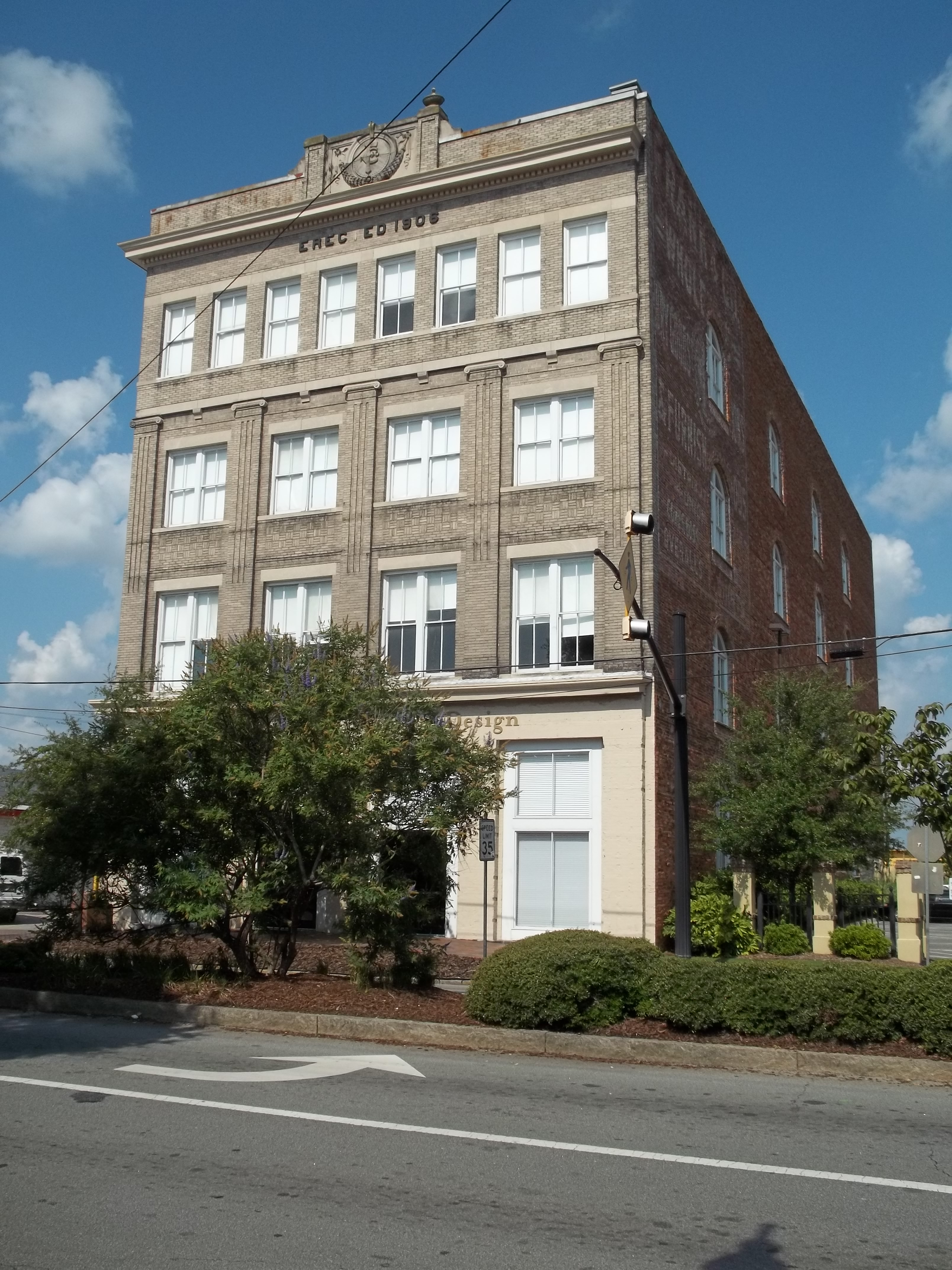 Savannah, Georgia: Crites Hall, part of the Savannah College of Art